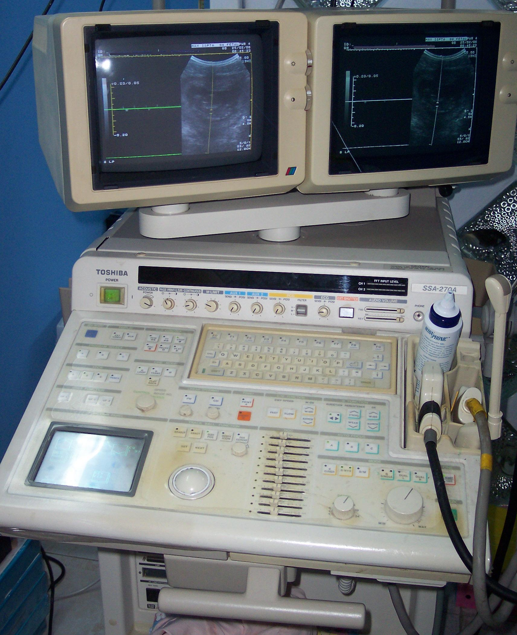 Medical Sonographic Scanner Toshiba SSA-270A